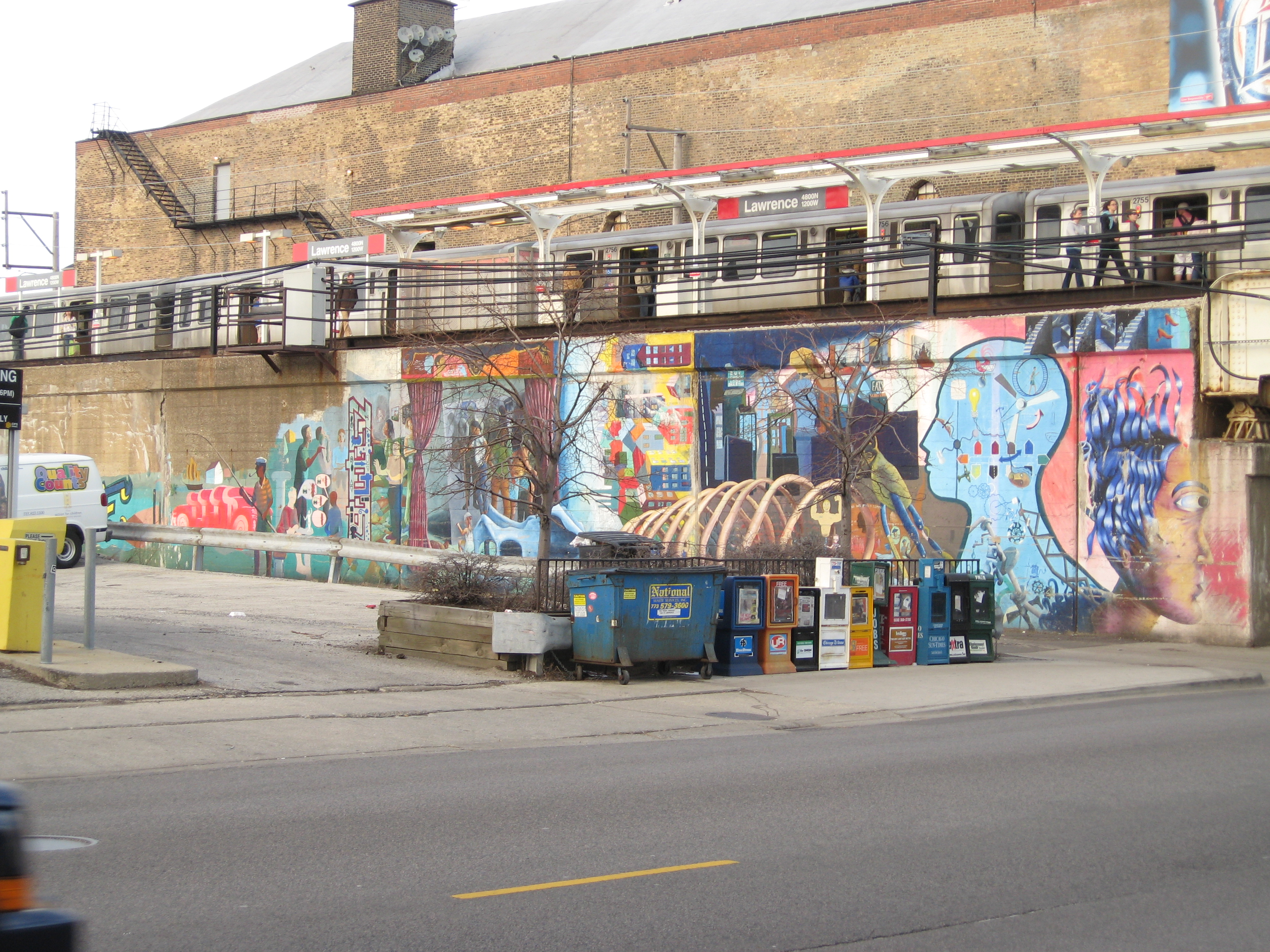 Lawrence Chicago 'L' station.